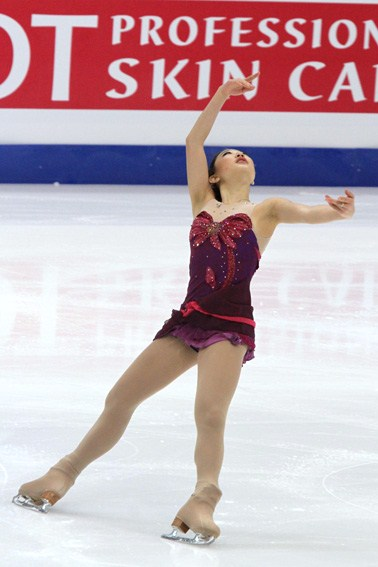 Mirai Nagasu at the 2011 Four Continents Championships.